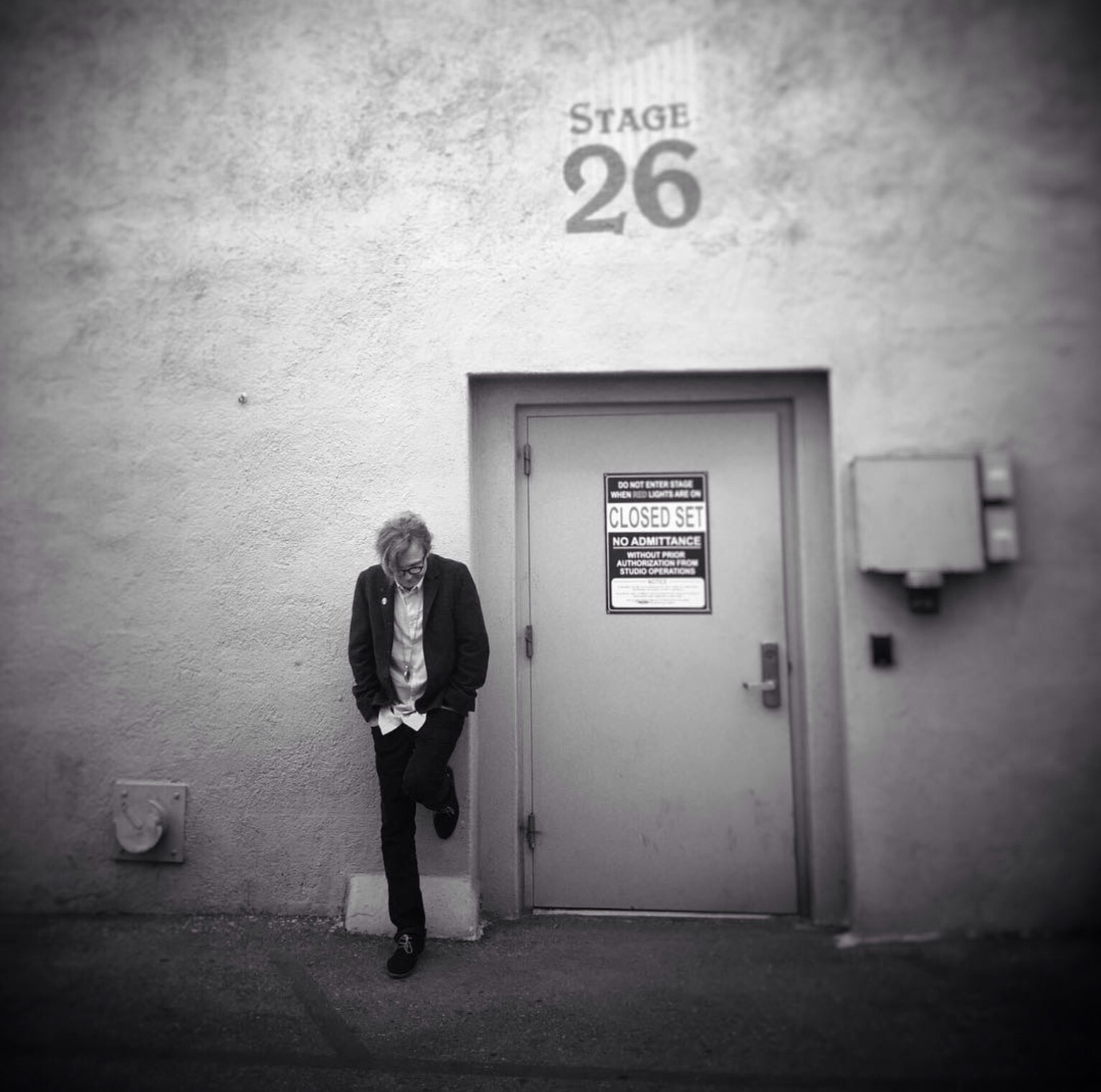 SteveGainer at SONY Studios